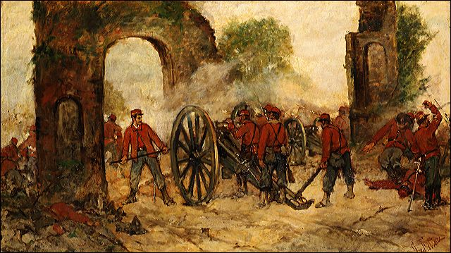 Volturno Battle